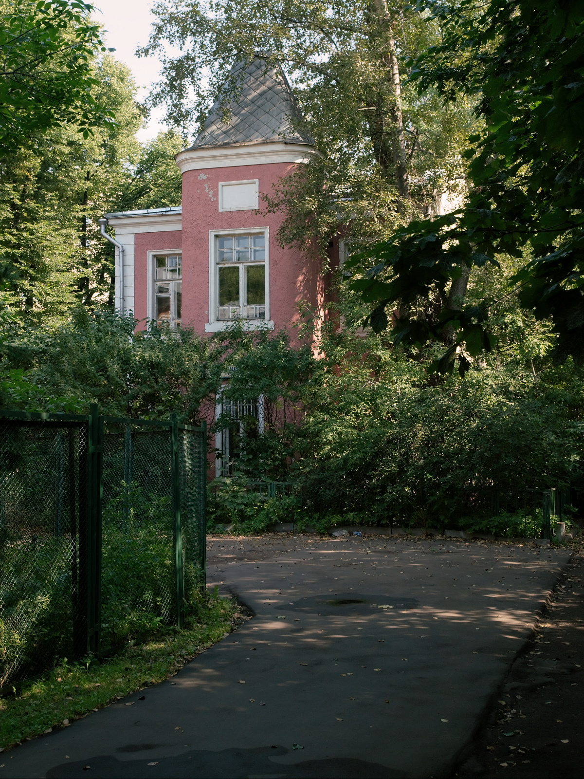 Chernyschevskogo Lane, Moscow.